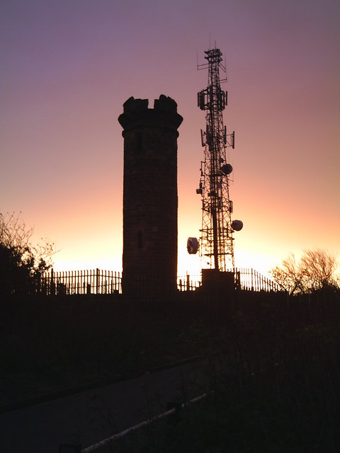 Beacon Dawn Dawn on Sedgley Beacon Dudley.